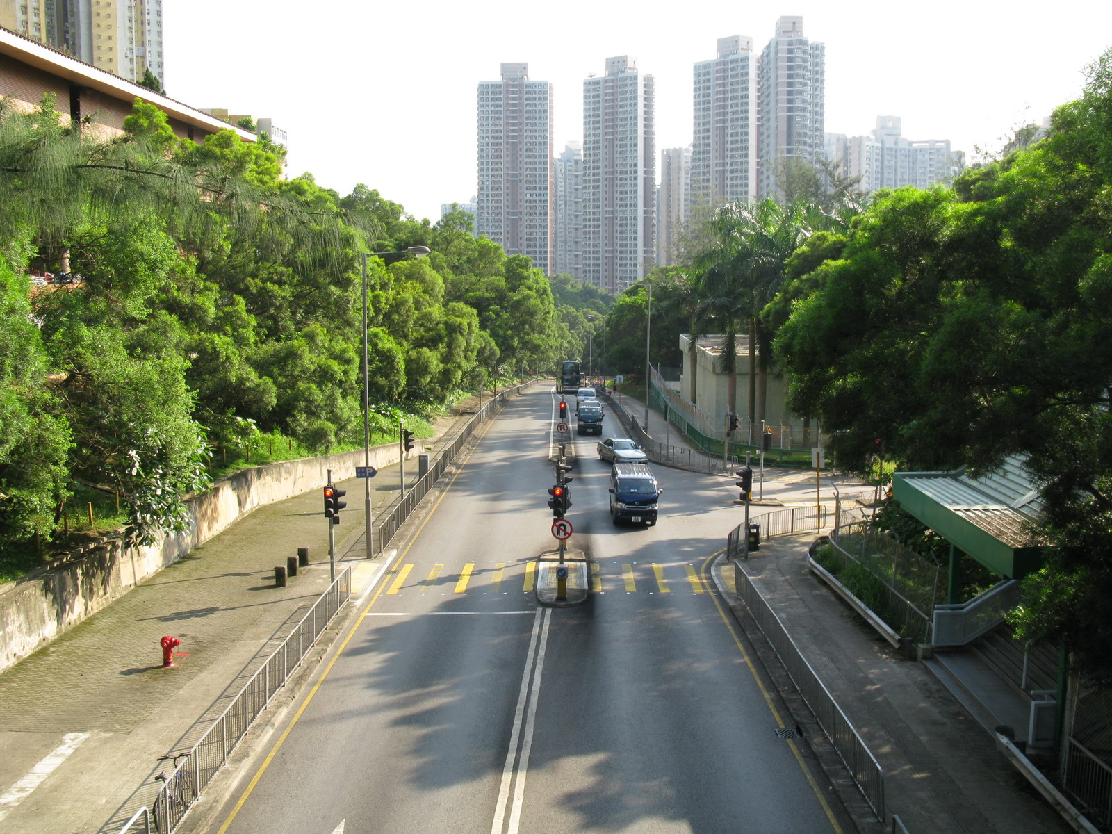 Kam Ying Road, view towards Ma On Shan Road